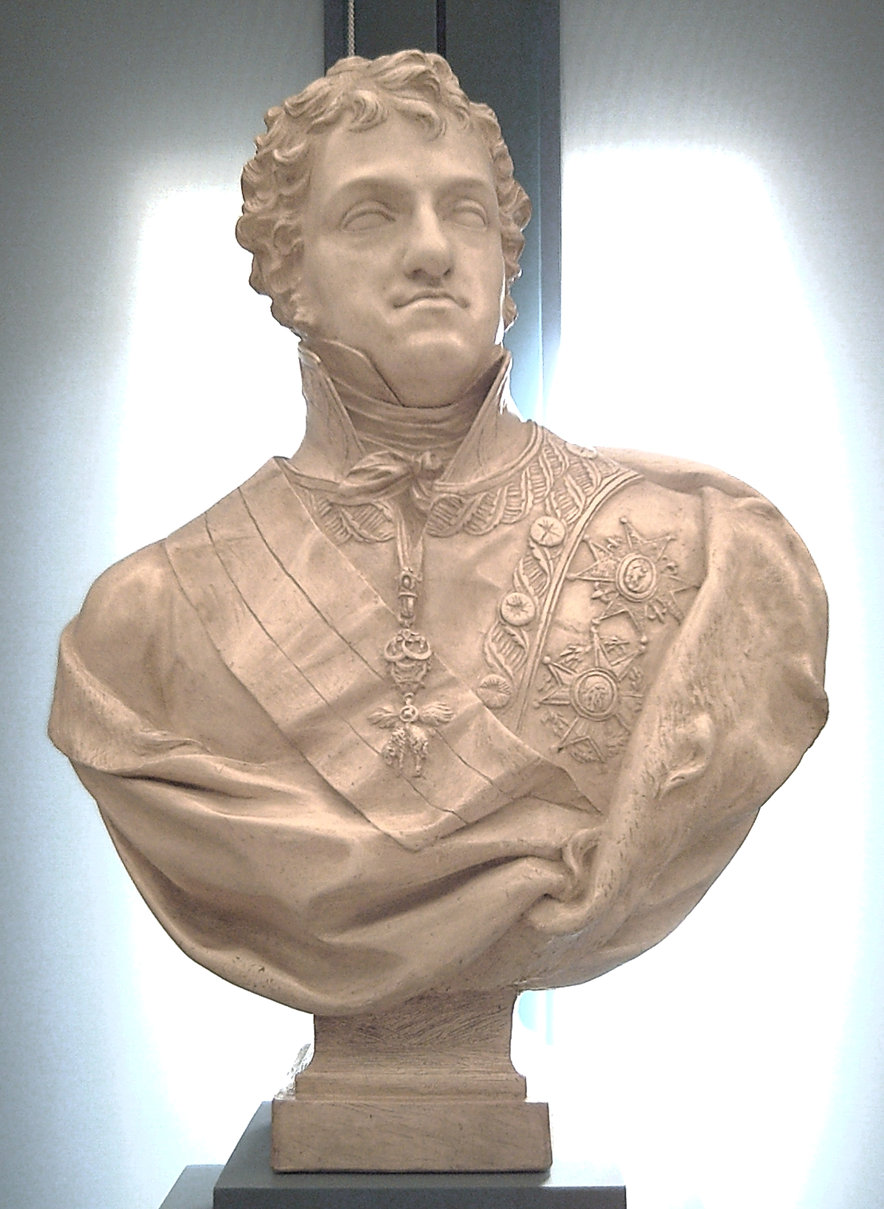 Official portrait of king Ferdinand VII of Spain (1784–1833).